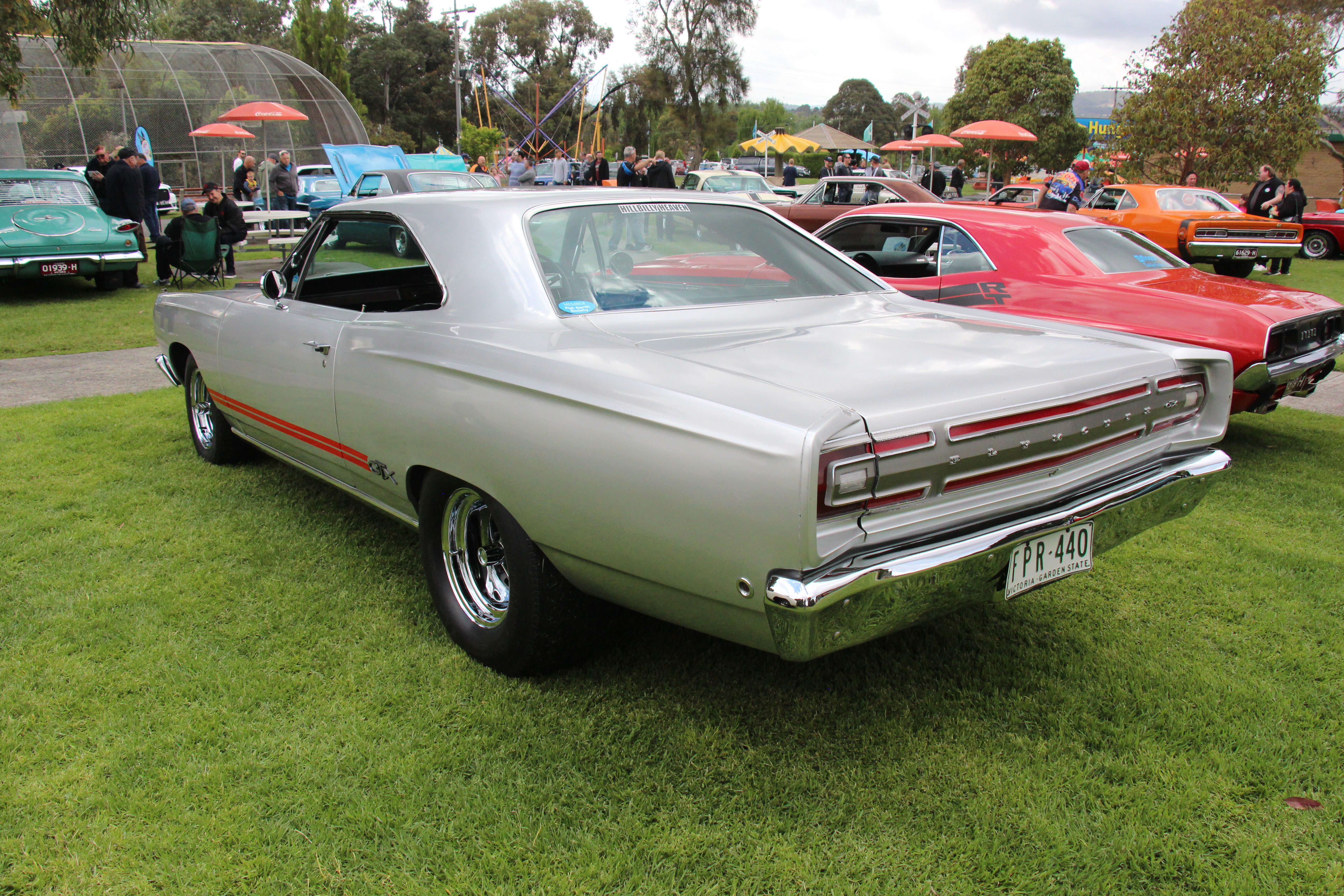 Buffed Silver. The Plymouth was introduced in 1928, Chryslers lowest priced car. From 1965, three size cars were available; The compact A body Valiant and Barracuda. The Intermediate B body Belvedere and Satellite (same platform as the Dodge Coronet and Charger) And the full size C body Fury I, II and III. For 1968, the B body cars were restyled with a roofline changed to follow the Dodge Charger. Available was; The base Belvedere (2 door Coupe, 4 door Sedan and Wagon). The upmarket Satellite with bucket seats and a console (2 door Hardtop, Convertible, 4 door Sedan and Wagon). The GTX was introduced in 1967 to be a gentleman's muscle car, it was a blend of style and performance. (2 door Hardtop or Convertible) Standard 440, optional 426. The Road Runner was introduced in 1968, a cheaper high performance option with mock hood scoops, optional racing stripes and heavy duty suspension (2 door Coupe or 2 door Hardtop) Standard 383, optional 426. The GTX got the Satellite trim, whereas the Roadrunner got the Belvederes. 1968 Engines; 145hp 225 slant 6, 230hp 318 V8, 290 or 330hp 383 V8, 375hp 440 V8 and 425hp 426 Hemi..